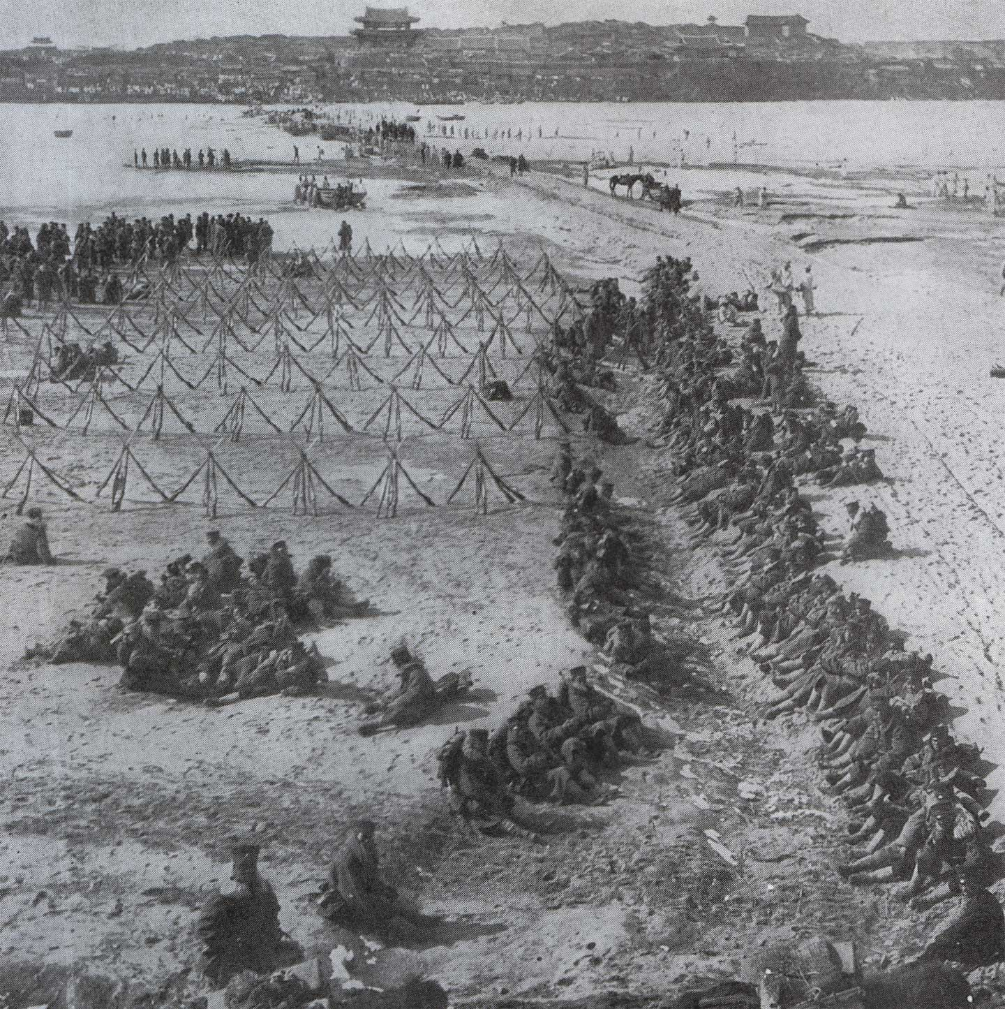 Japanese Troops in Seoul.